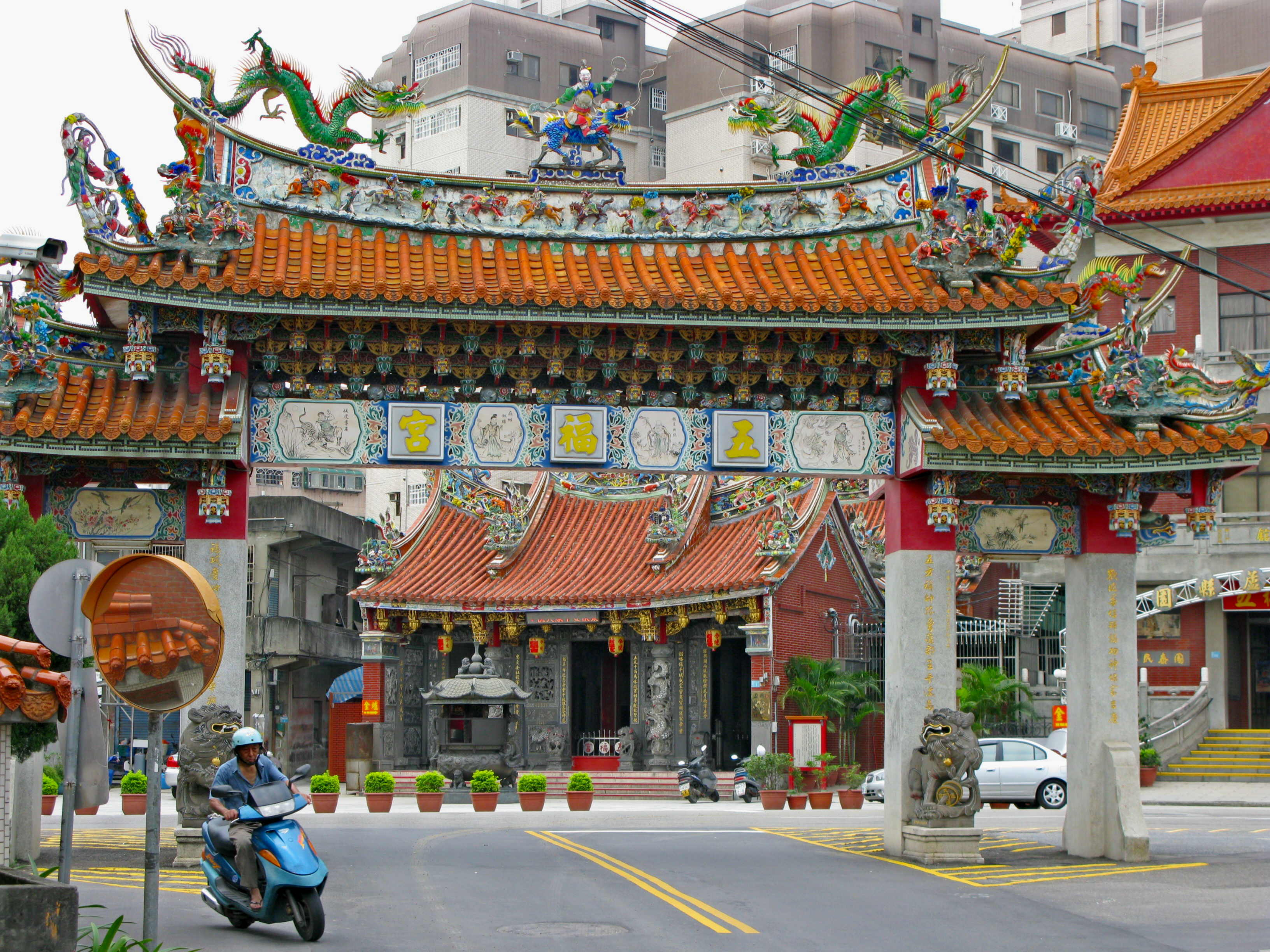 Nankan wufu Temple